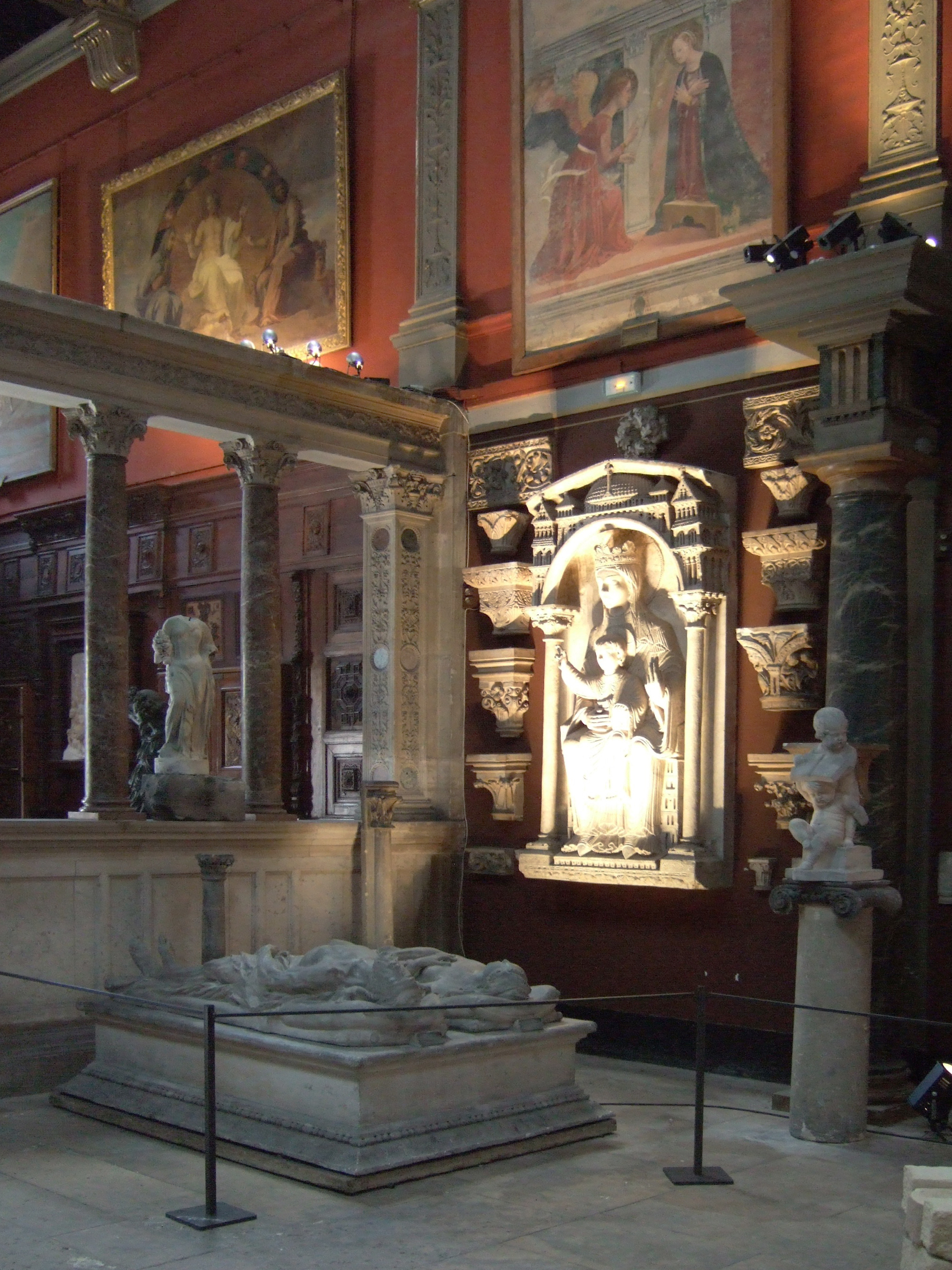 Ecole nationale superieure des Beaux-Arts, Paris, Ensba, Chapel Interior